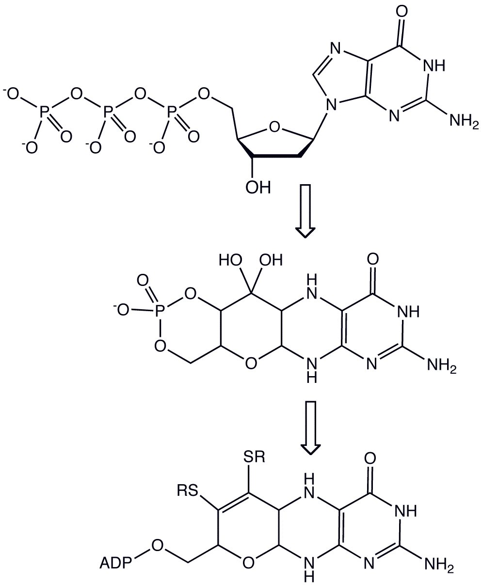 steps toward formation of the enzyme cofactor molybdopterin